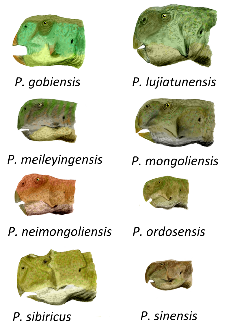 Head comparison of the different species of Psittacosaurus, a primitive ceratopsian from the Early Cretaceous of China, Mongolia and Russia, pencil drawing